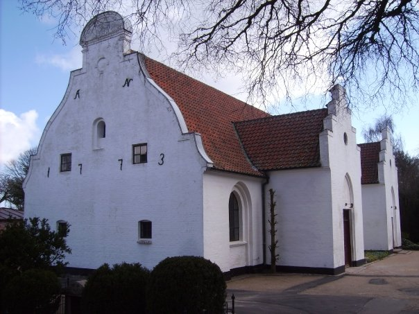 Church of Fladstrand, situated in the Danish town Frederikshavn.